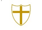 This is the logo of w:8th Engineer Brigade.